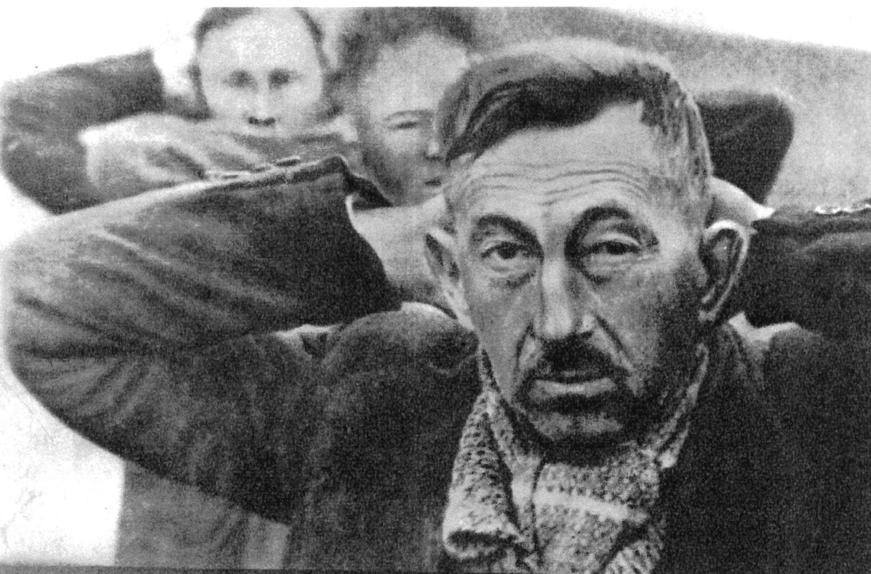 Group of polish teachers from Bydgoszcz (Władysław Bieliński in the foreground). Photo taken before the execution in the "Valley of Death" near the Bydgoszcz, conducted by members of so-called "Volksdeutscher Selbstschutz". Autumn 1939.